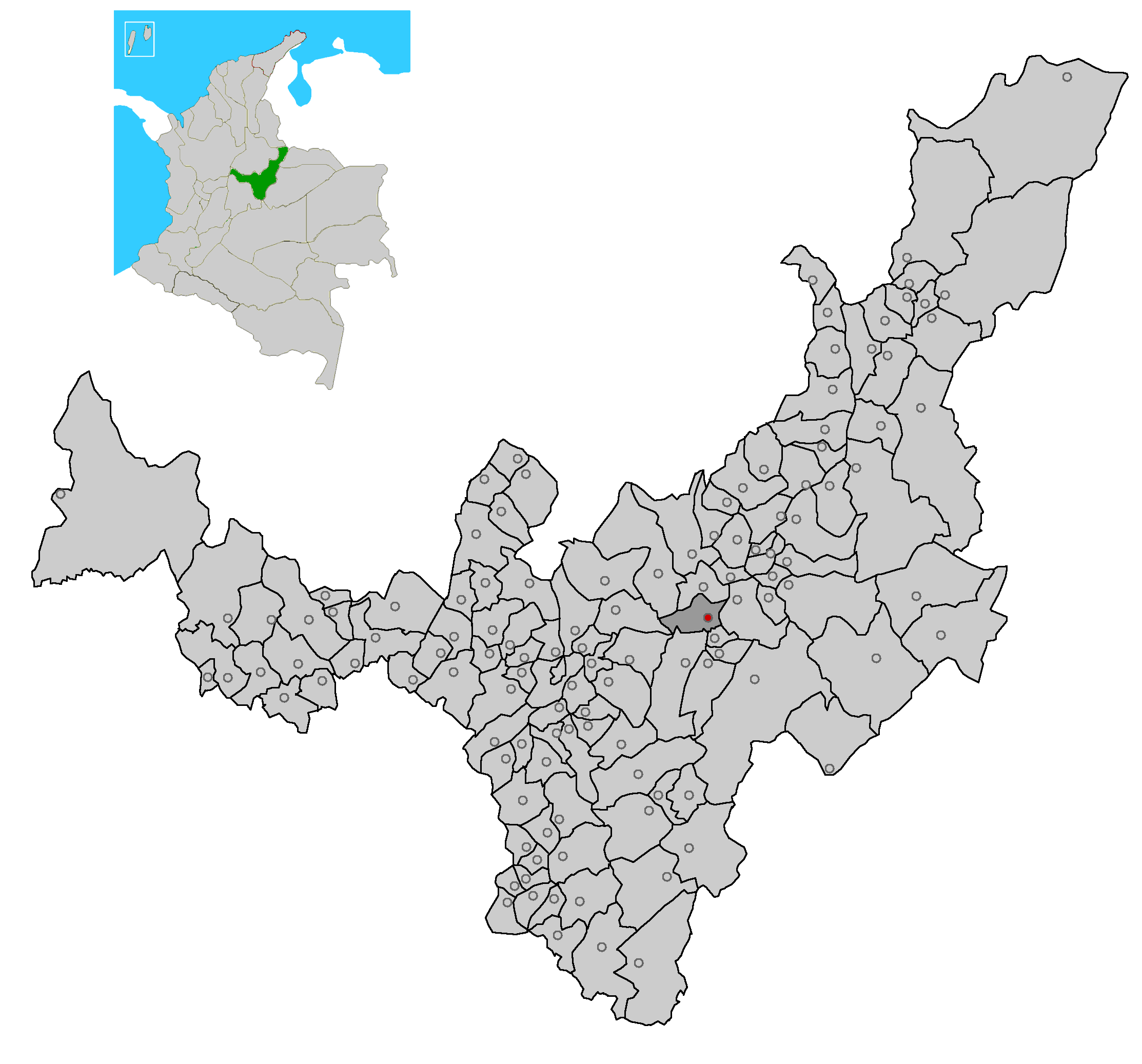 Image depicting map location of the town and municipality of Firavitoba in Boyaca Department, Colombia